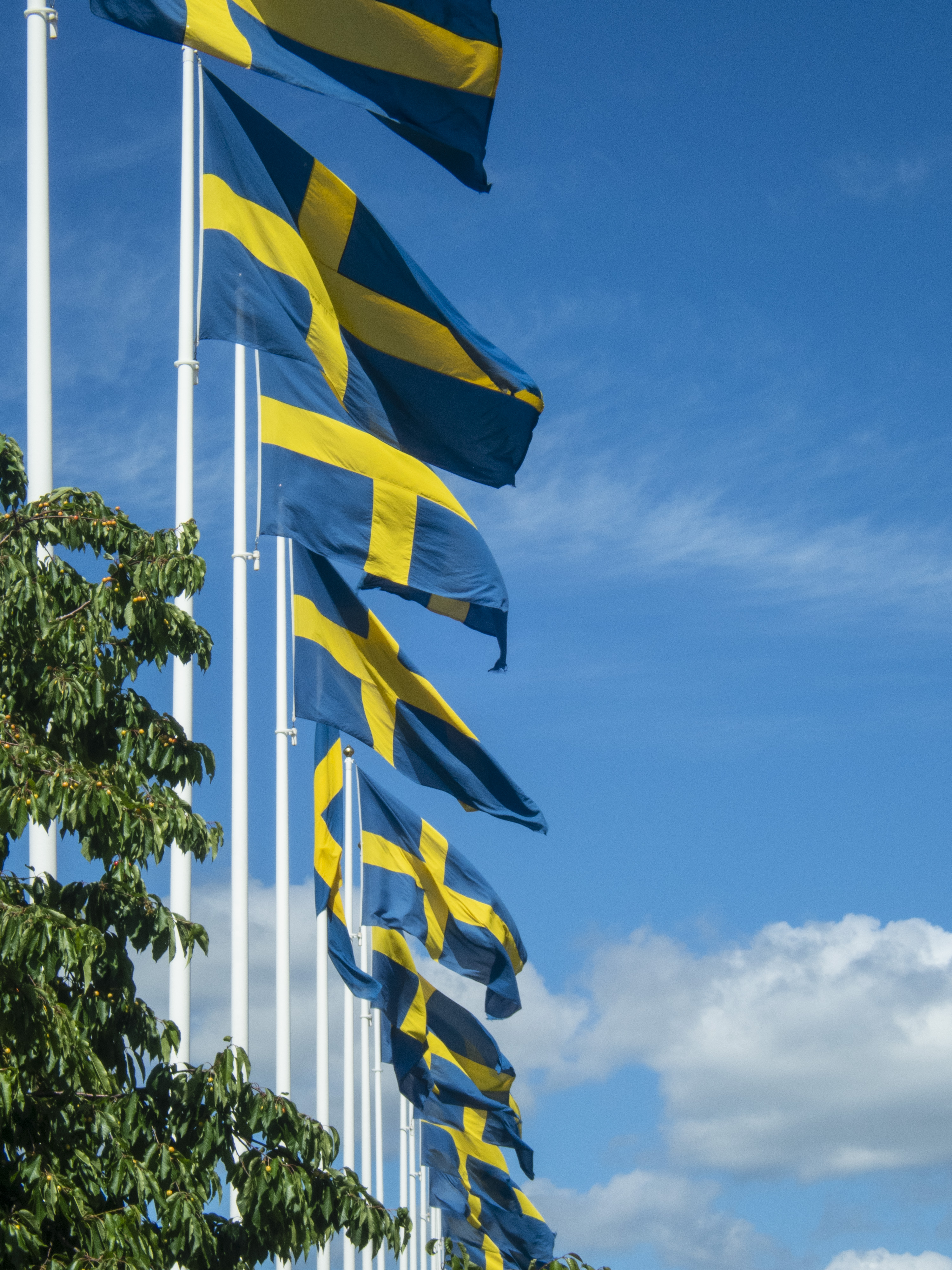 Swedish flag in a row